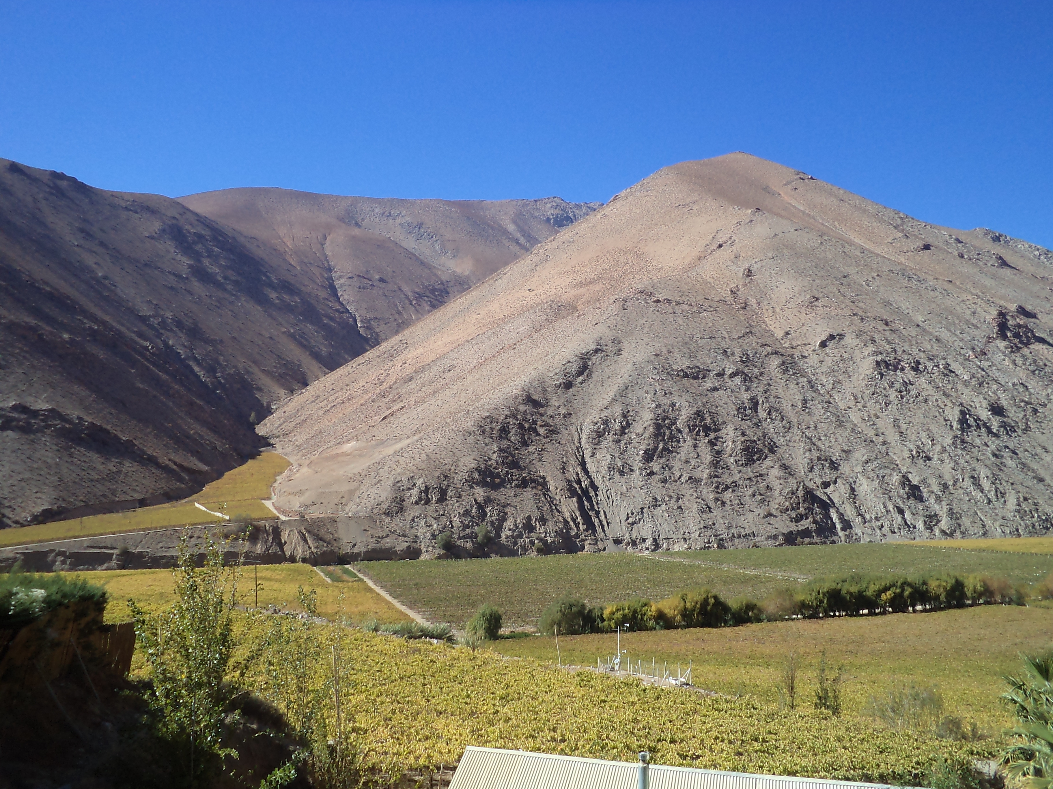 Vista de una parte del Valle del Elqui